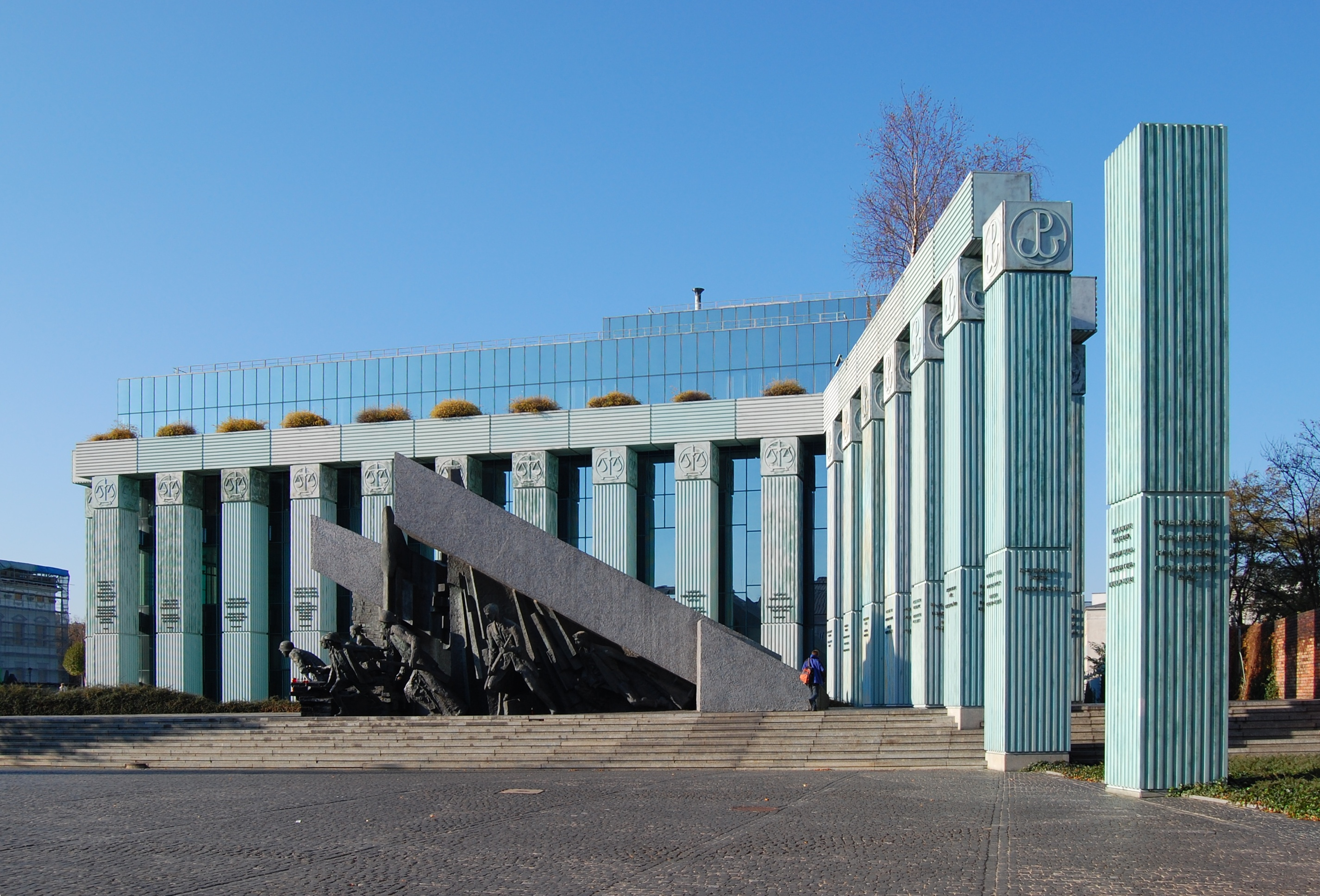 Krasińskich Square in Warsaw with Warsaw Uprising Monument.